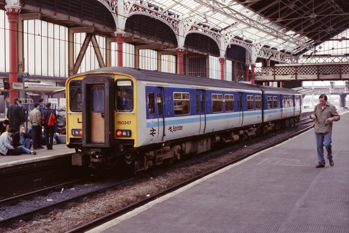 Sprinter DMU 150247 (52247+57247) at Preston Station for the RoseLink service to Leeds.